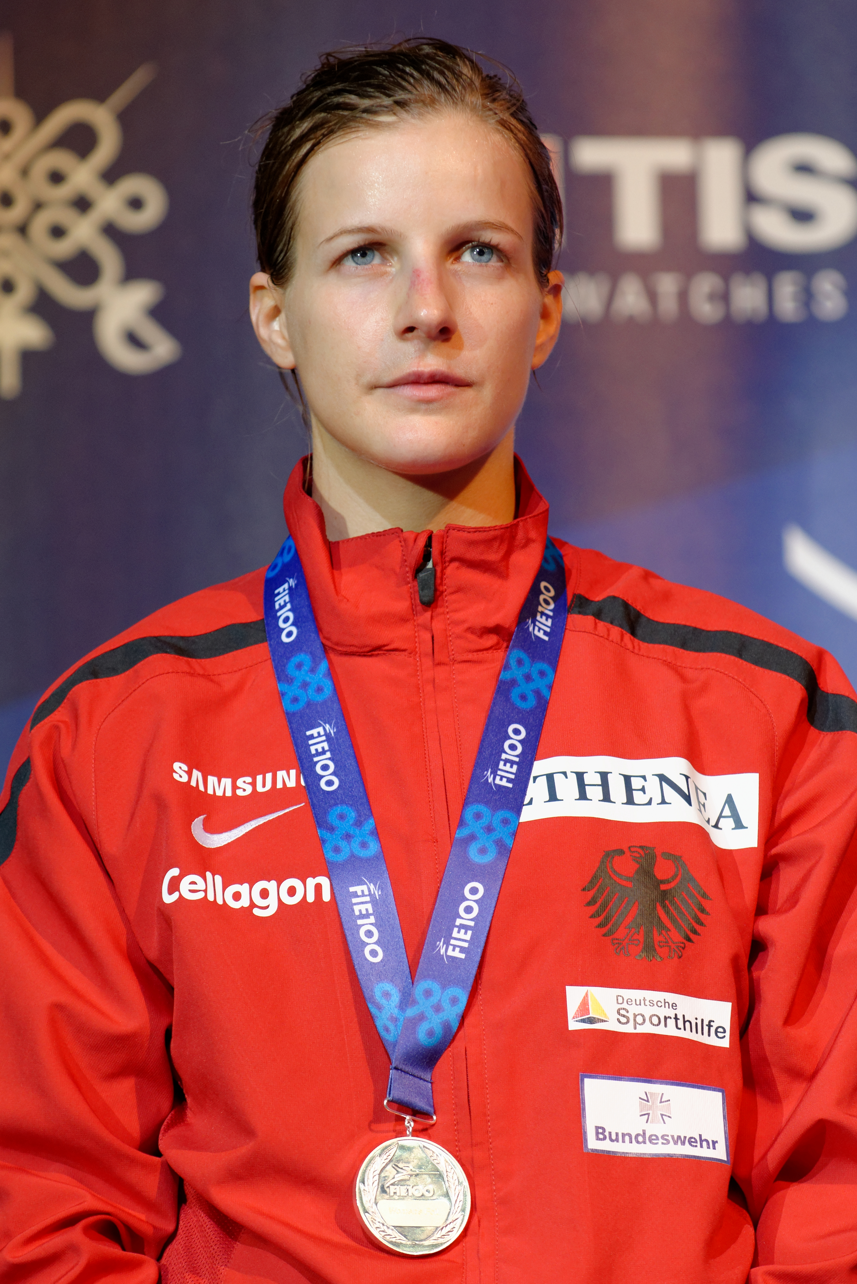 Germany's Carolin Golubytskyi stands on the women's foil podium of the 2013 World Fencing Championships 2013 at Syma Hall in Budapest, 10 August 2013.